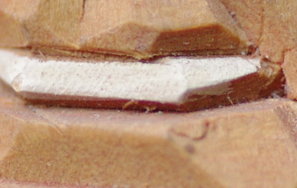 Close up of Koshibori1.JPG. Diffraction in phptography at F2.8.